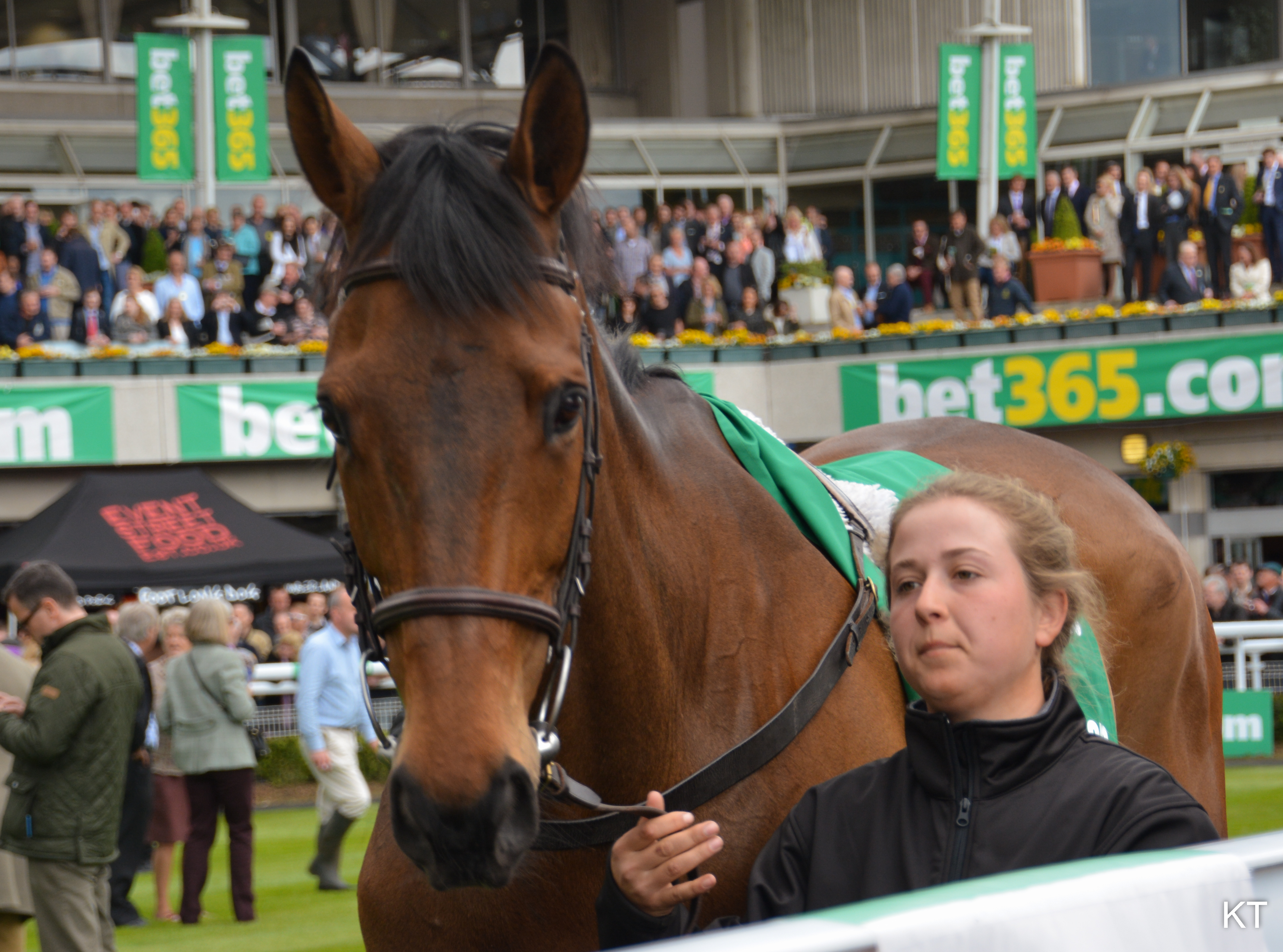 Coneygree